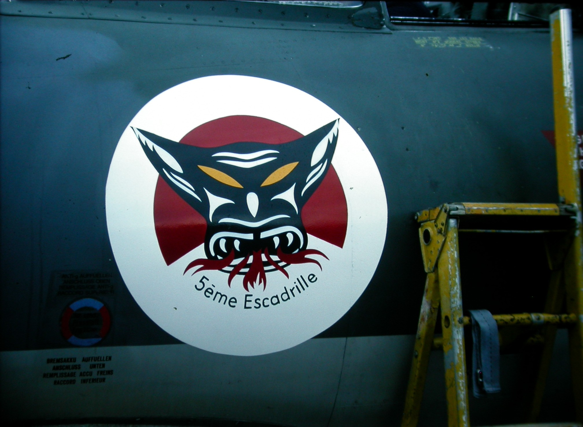 Swiss Air Force former No 5 Squadron Emblem